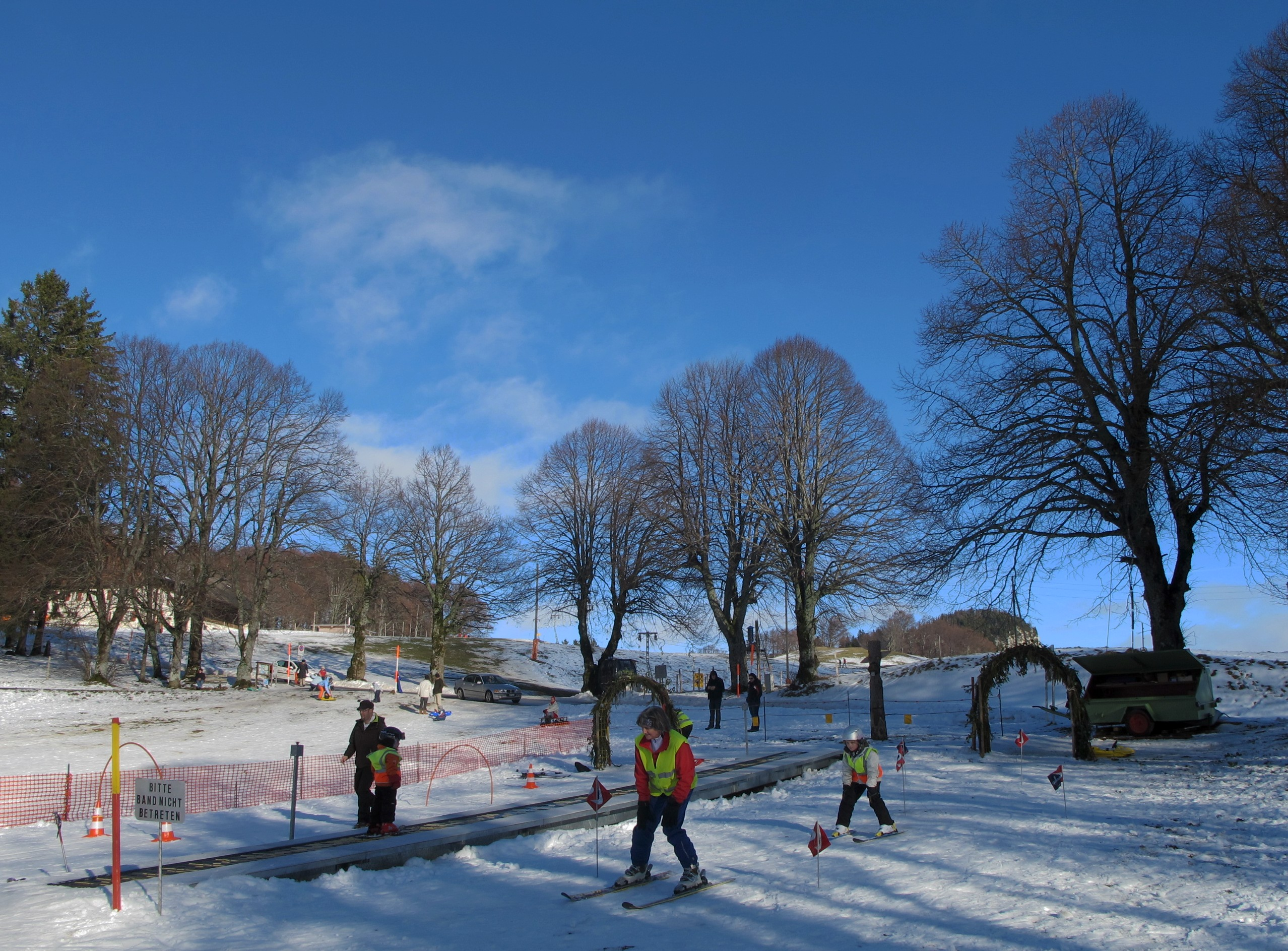 skiing school Balmberg SO Switzerland